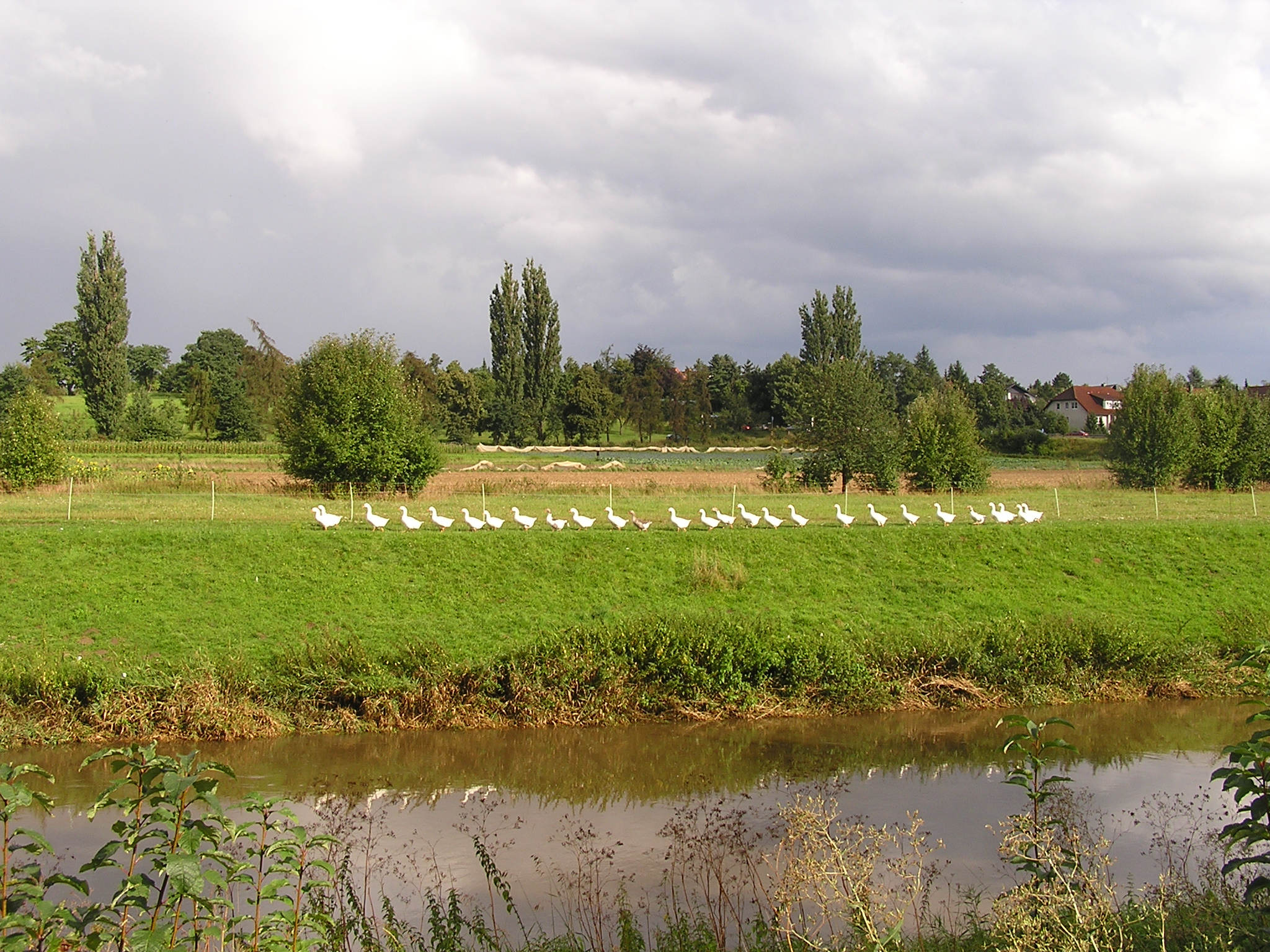 Geese in single file at the Dottenfelderhof (Bad Vilbel) at the Nidda